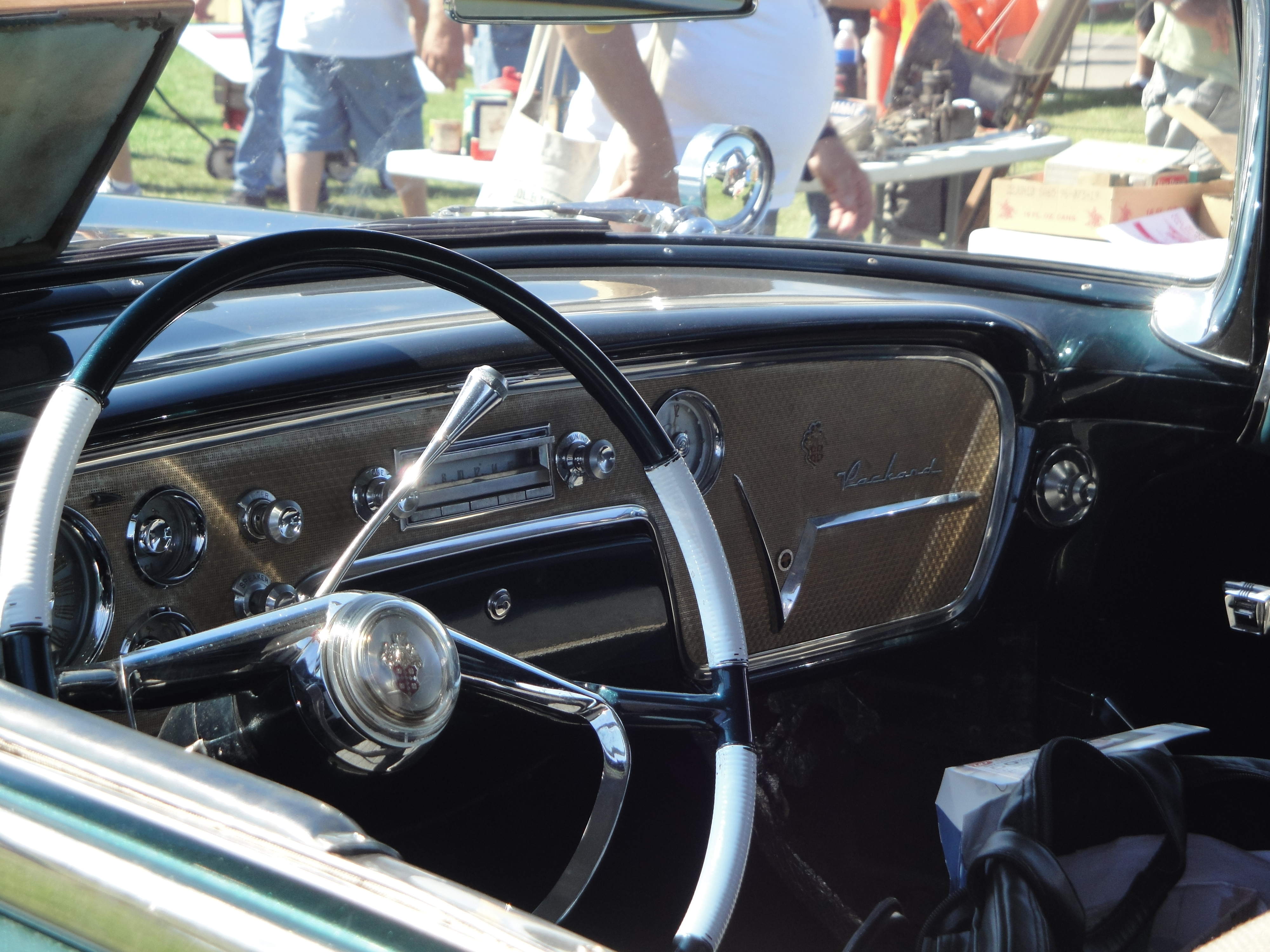 The Pantowners Annual Car Show and Swap Meet Sunday August 21, 2011